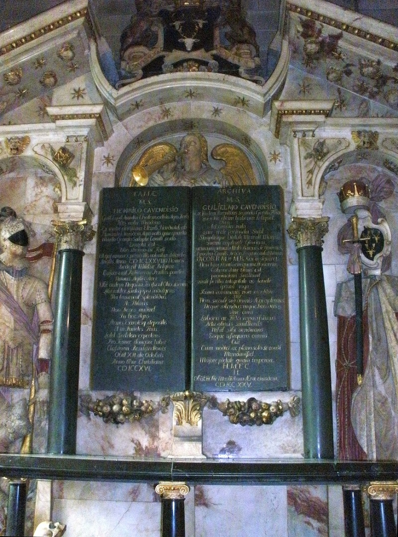 St Peter's Church, Edensor - The memorial to Henry Cavendish (died 1616) and William Cavendish (died 1625), two sons of Sir William Cavendish (c. 1505–1557) and Elizabeth Talbot, Countess of Shrewsbury (c. 1527–1608), known as "Bess of Hardwick"